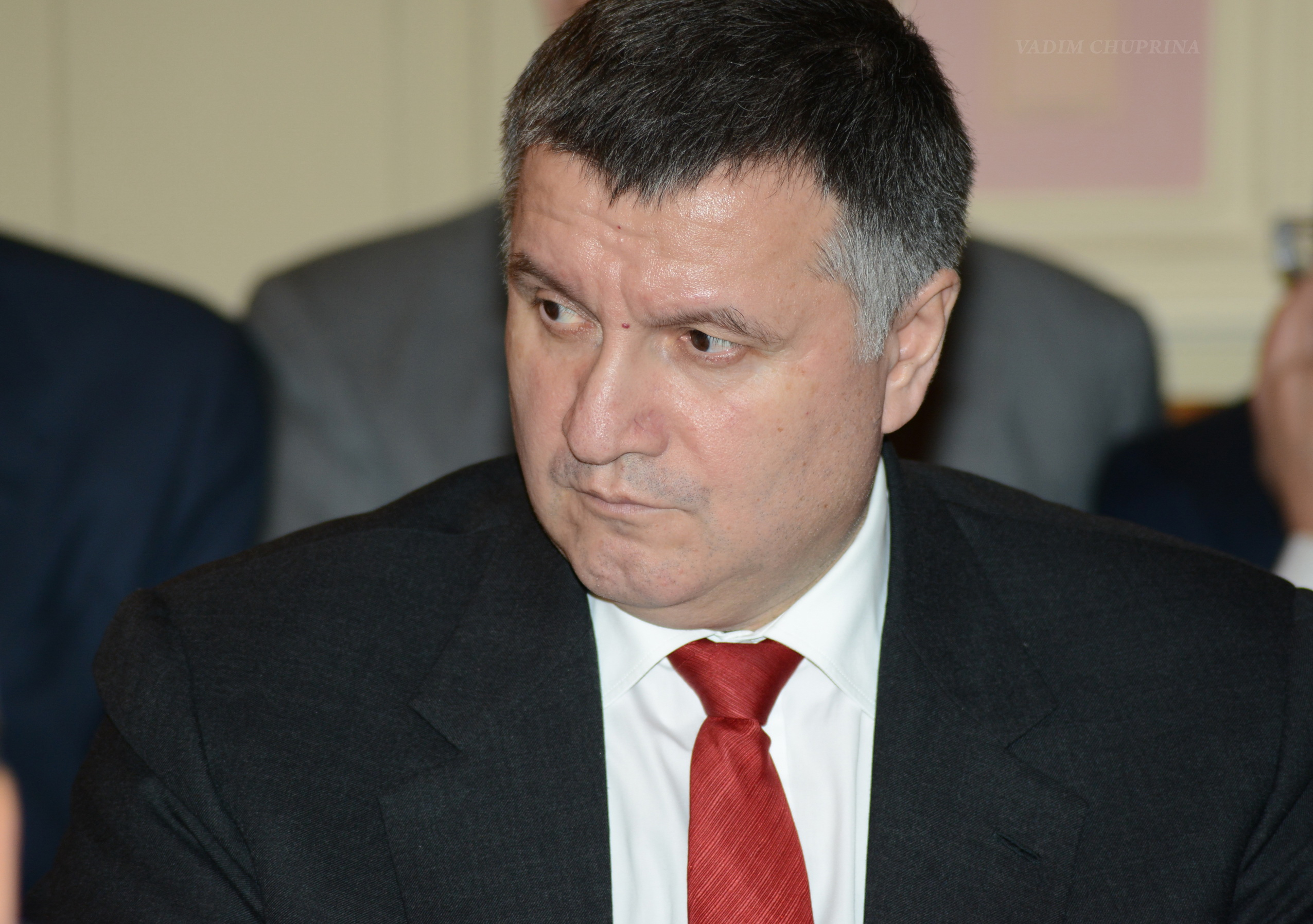 Ukrainian politicians VADIM CHUPRINA